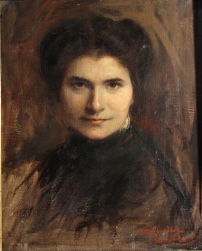 Self-portrait of the Swiss-Italian Painter Clara Müller, 1905